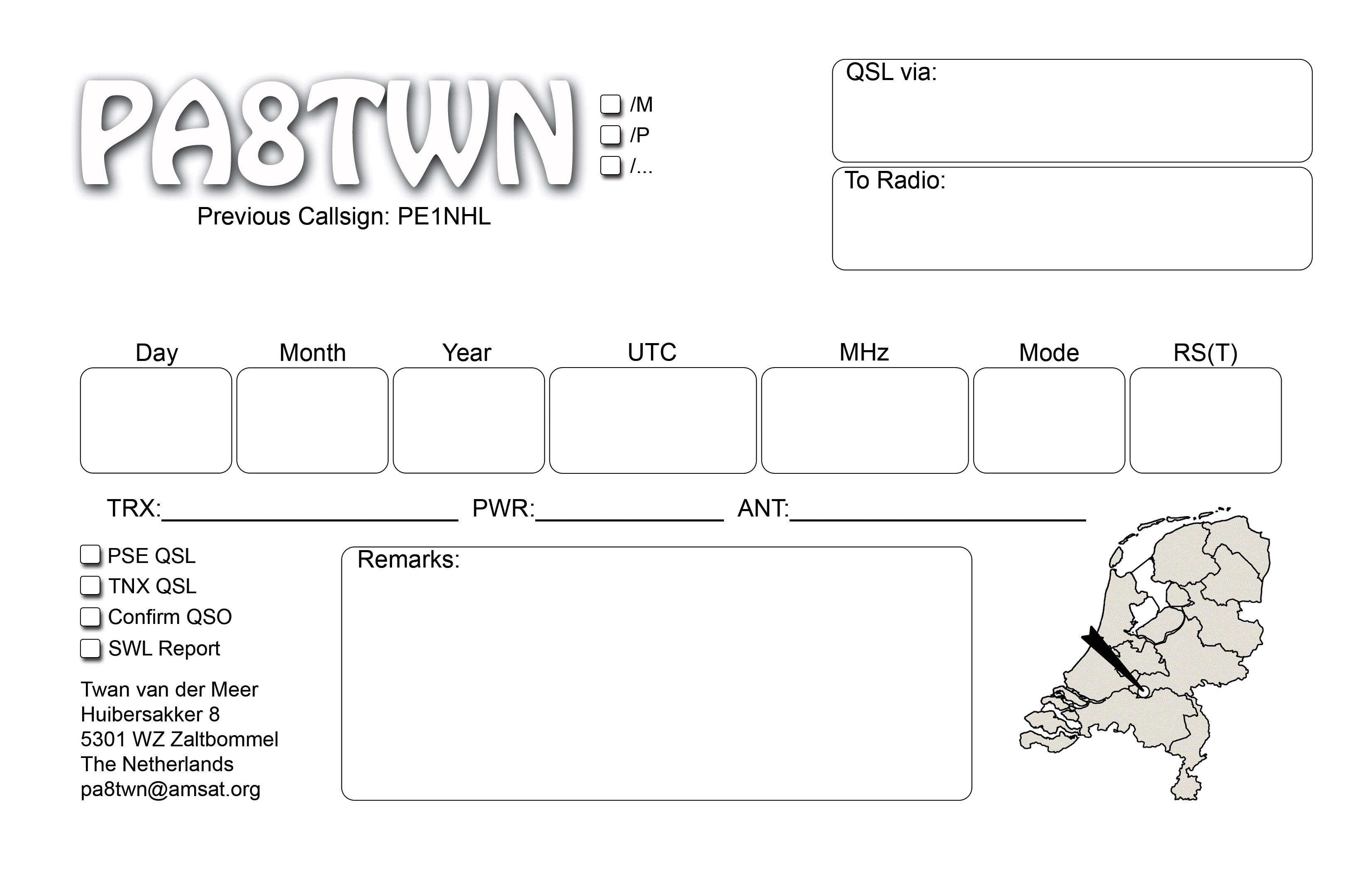 The QSL card I designed for use to confirm HAM QSO's (back)